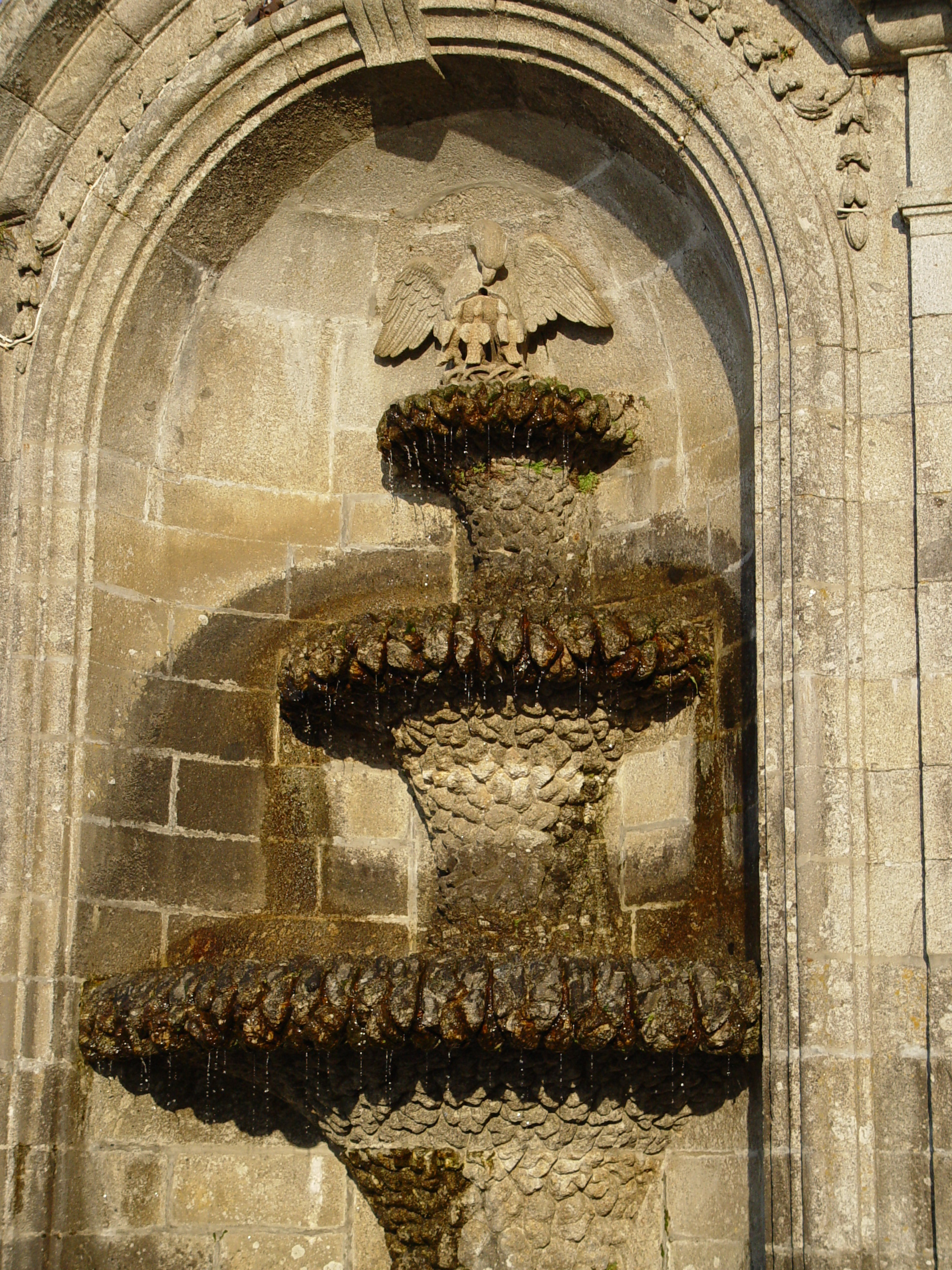 Pelicano Fountain in Bom Jesus Braga